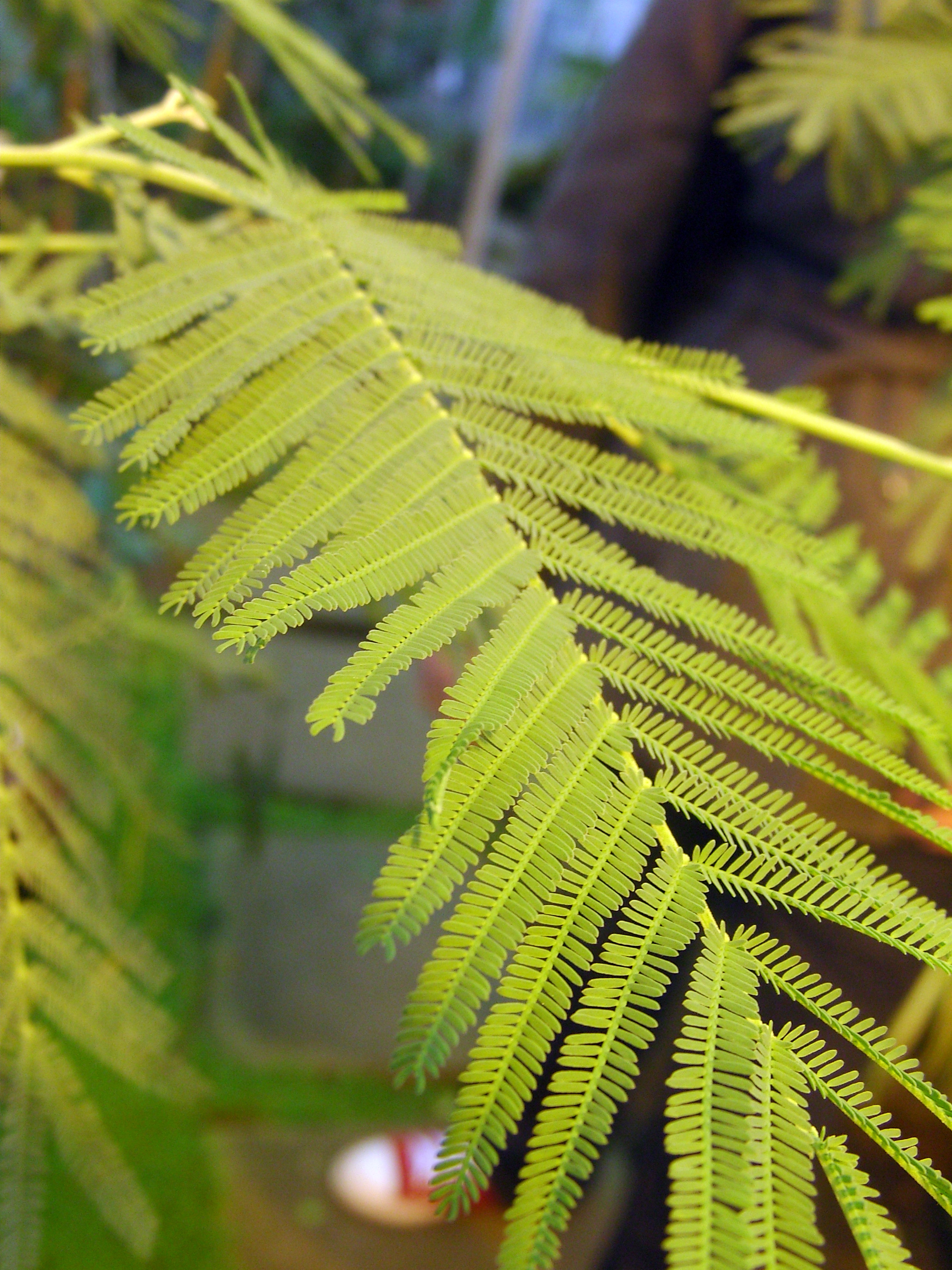 Close up of Acacia dealbata leaves.